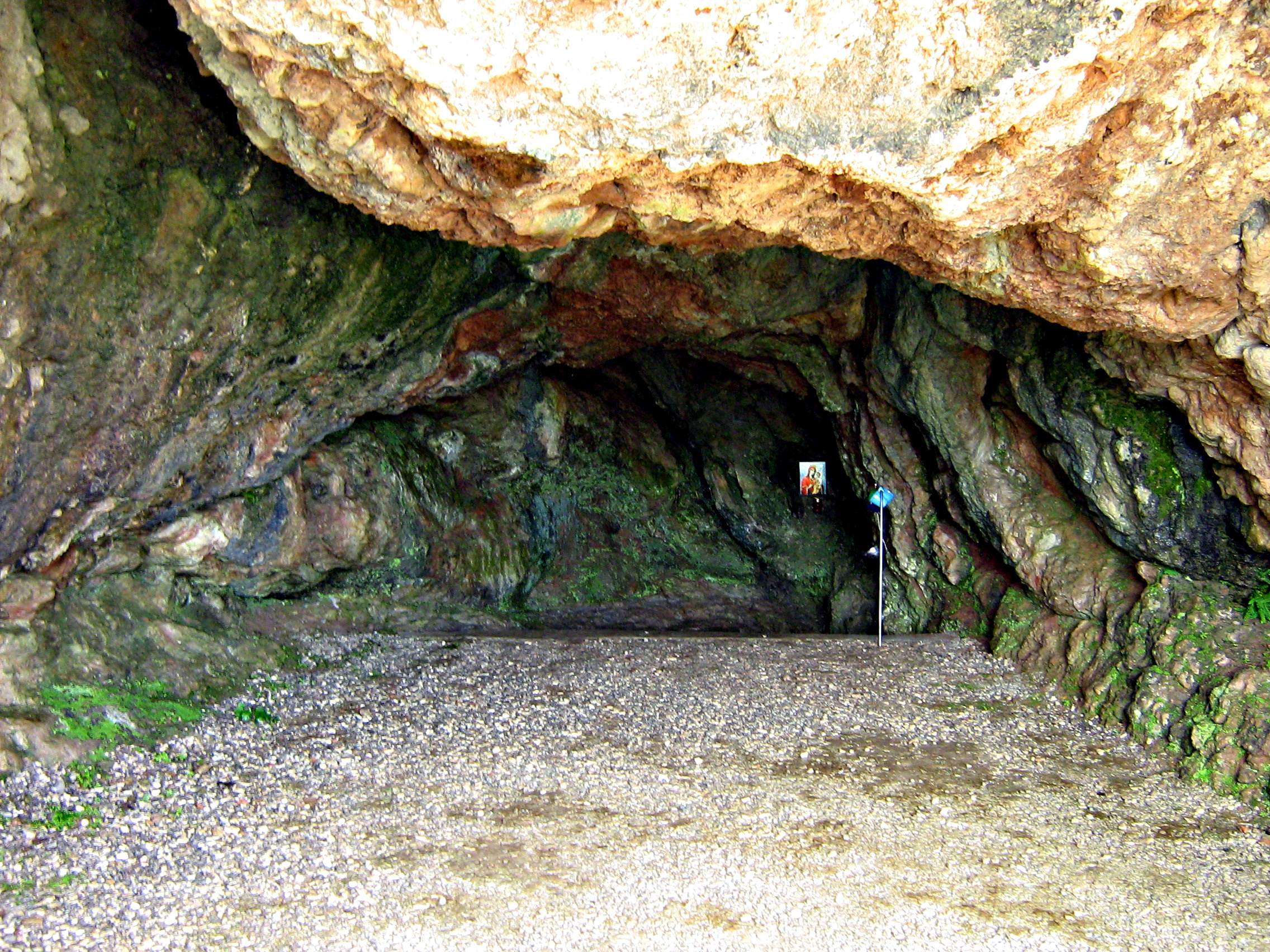 Kyzyltash. Crimea. Ukrain. Cave.